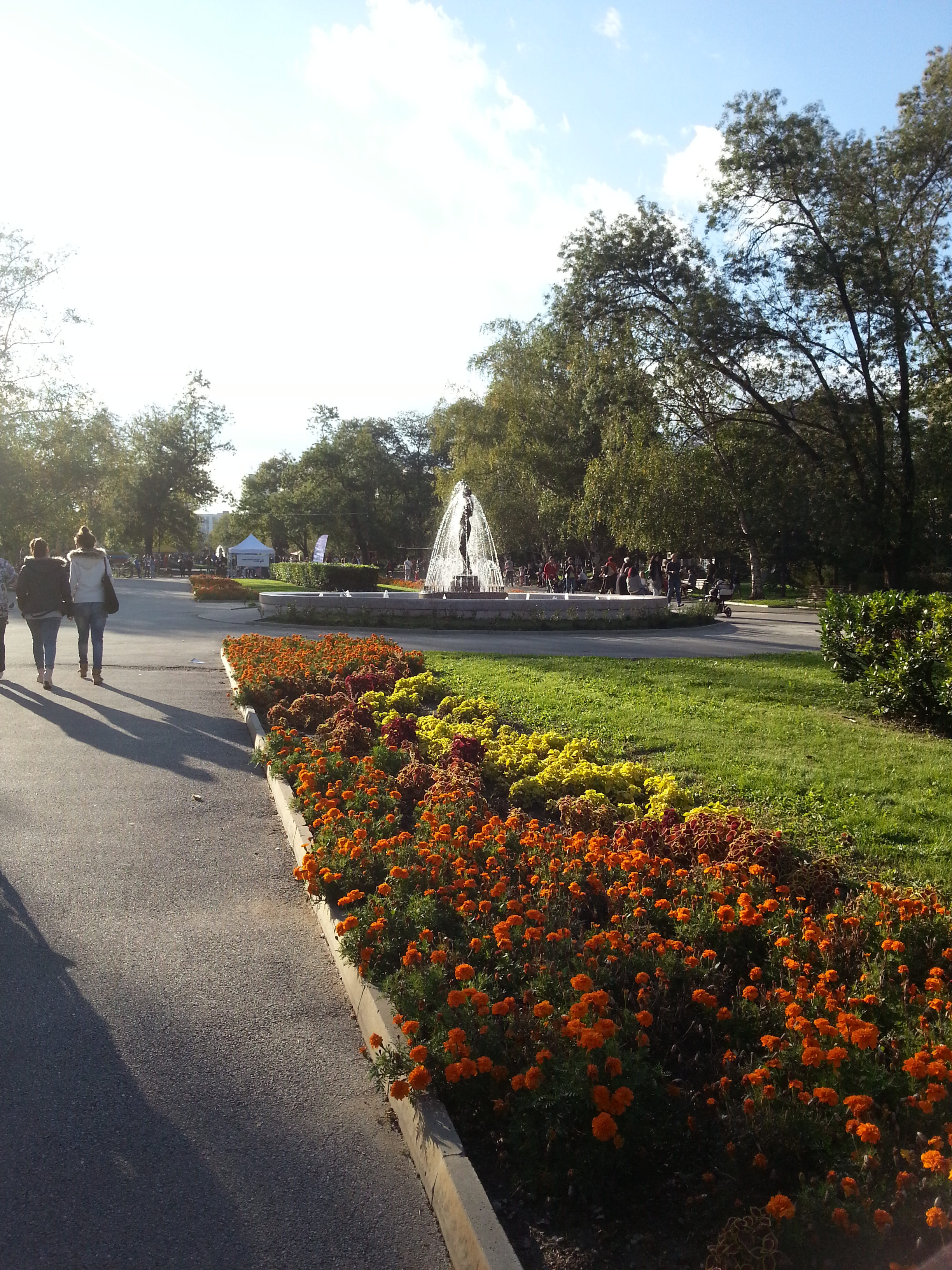 Zaimov Park in Sofia